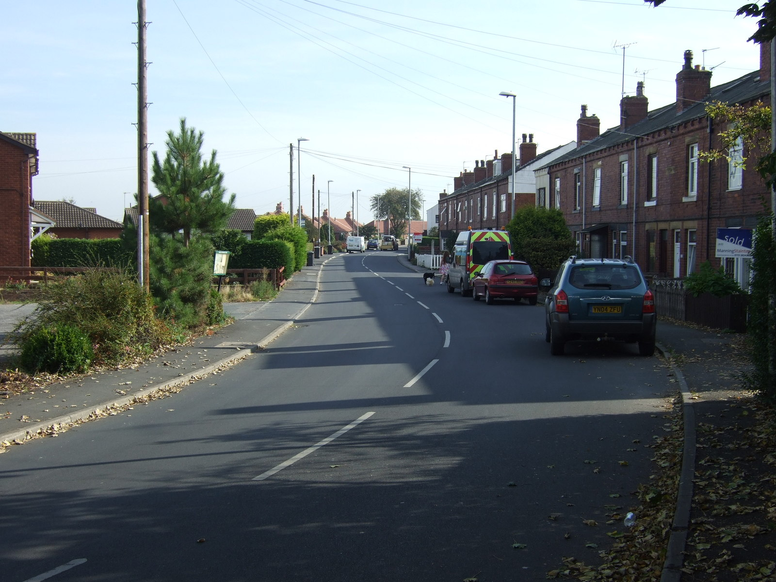 Lower Mickletown heading east